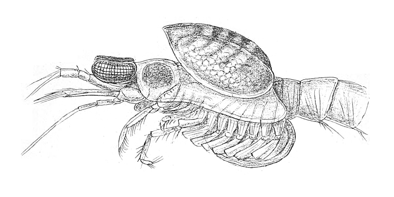 Female of parasitic isopod Aspidophryxus peltatus (Cymothoida: Bopyroidea: Dajidae) attached to the carapace of Erythropus (Mysida: Mysidae).